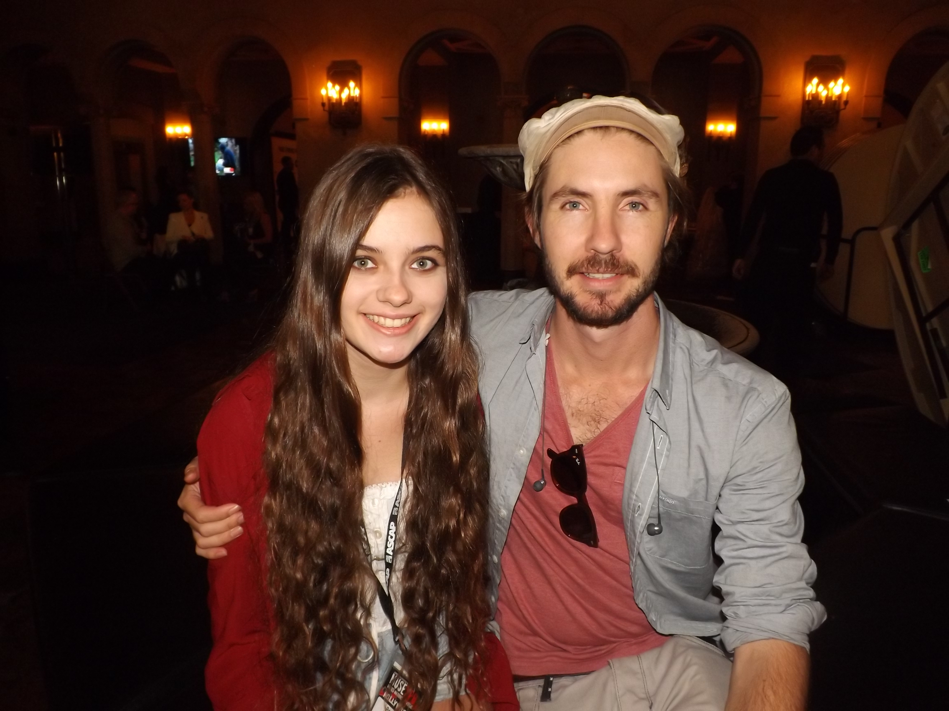 Aussie actor and singer songwriter Bonnie Ferguson with South African musician Jeremy Loops